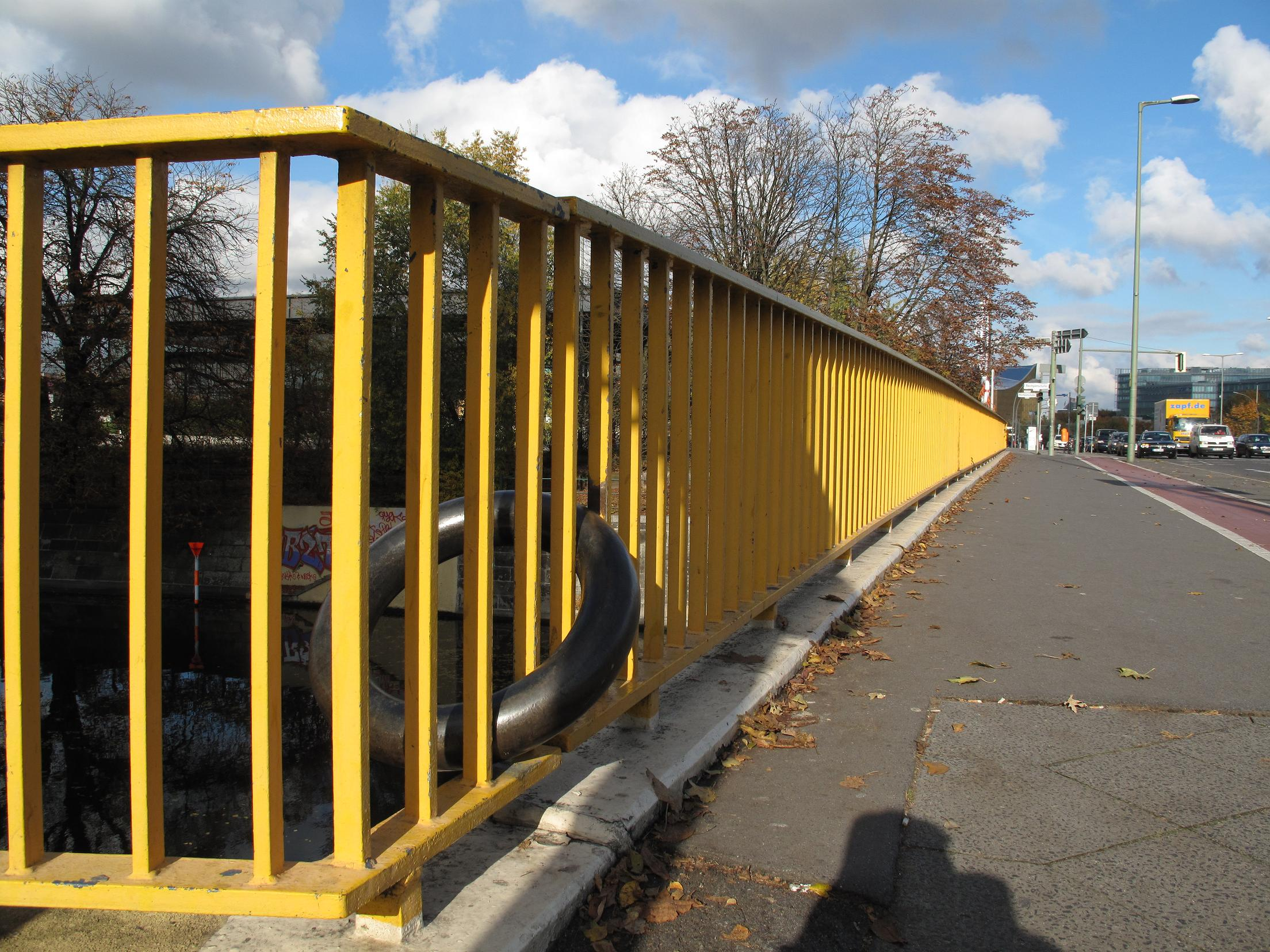 Public art „Der Ring“ (The ring), created in 1985 by the artist Norbert Radermacher. It’s a part of his theme „Stücke für Städte“ (Picies for cities), installed at the Potsdamer Brücke in Berlin-Tiergarten, Germany. The bridge, new built in 1968 and a part of the Potsdamer Straße, is crossing the Landwehrkanal (canal).